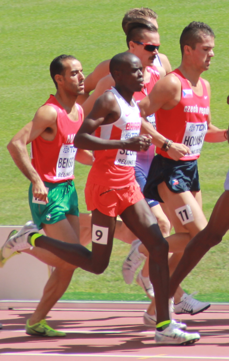 Yassine Bensghir, Benson Seurei and Jakub Holuša at the 2015 World Championships in Athletics